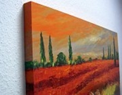 Decoblock in Frontansicht